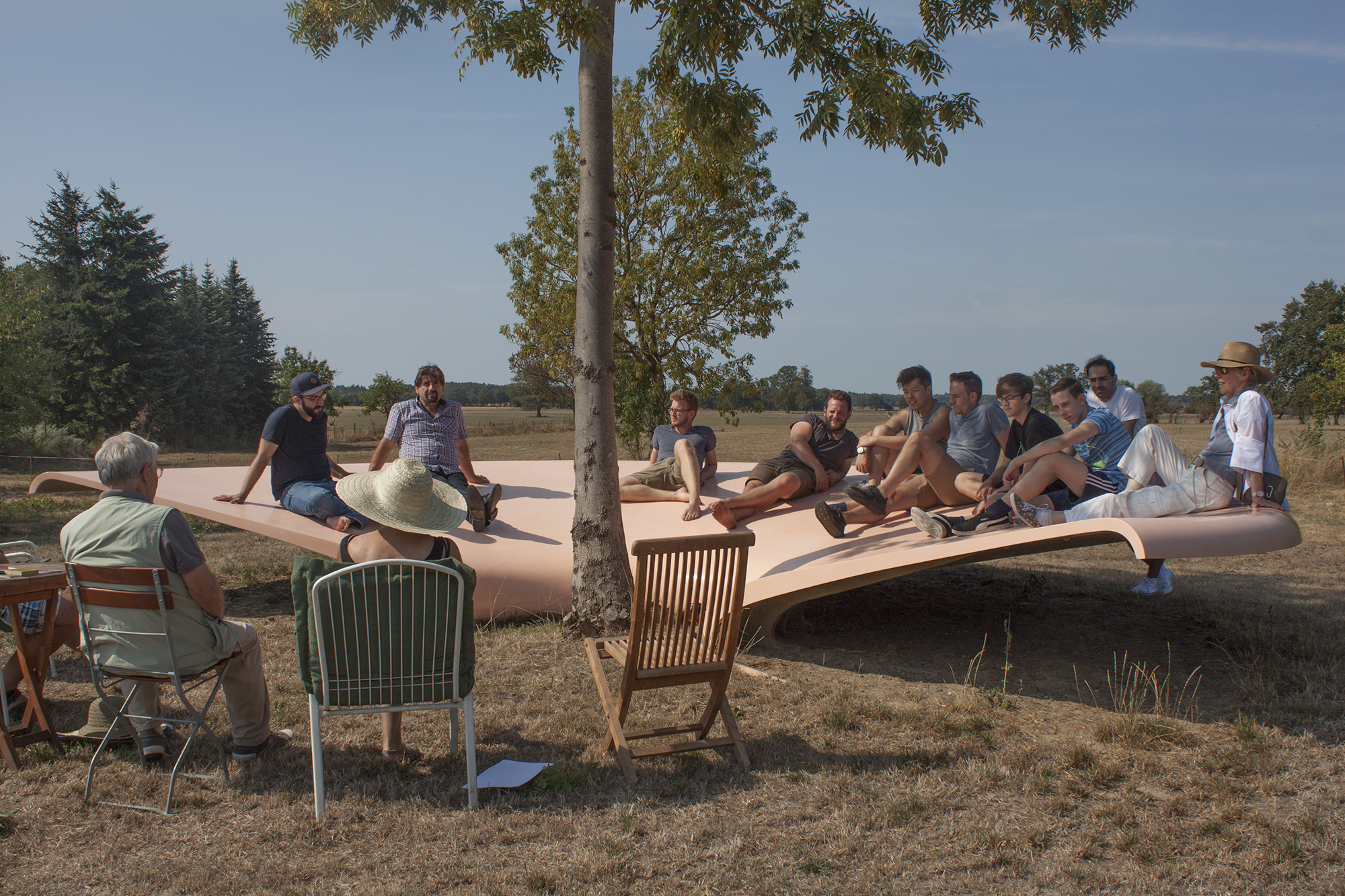 Ute Reeh, Baumscheibe (tree disc) at the Centre for Periphery, Karstädt, Germany, 2018